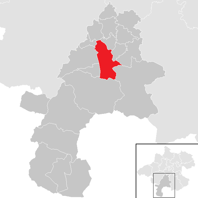 district Gmunden